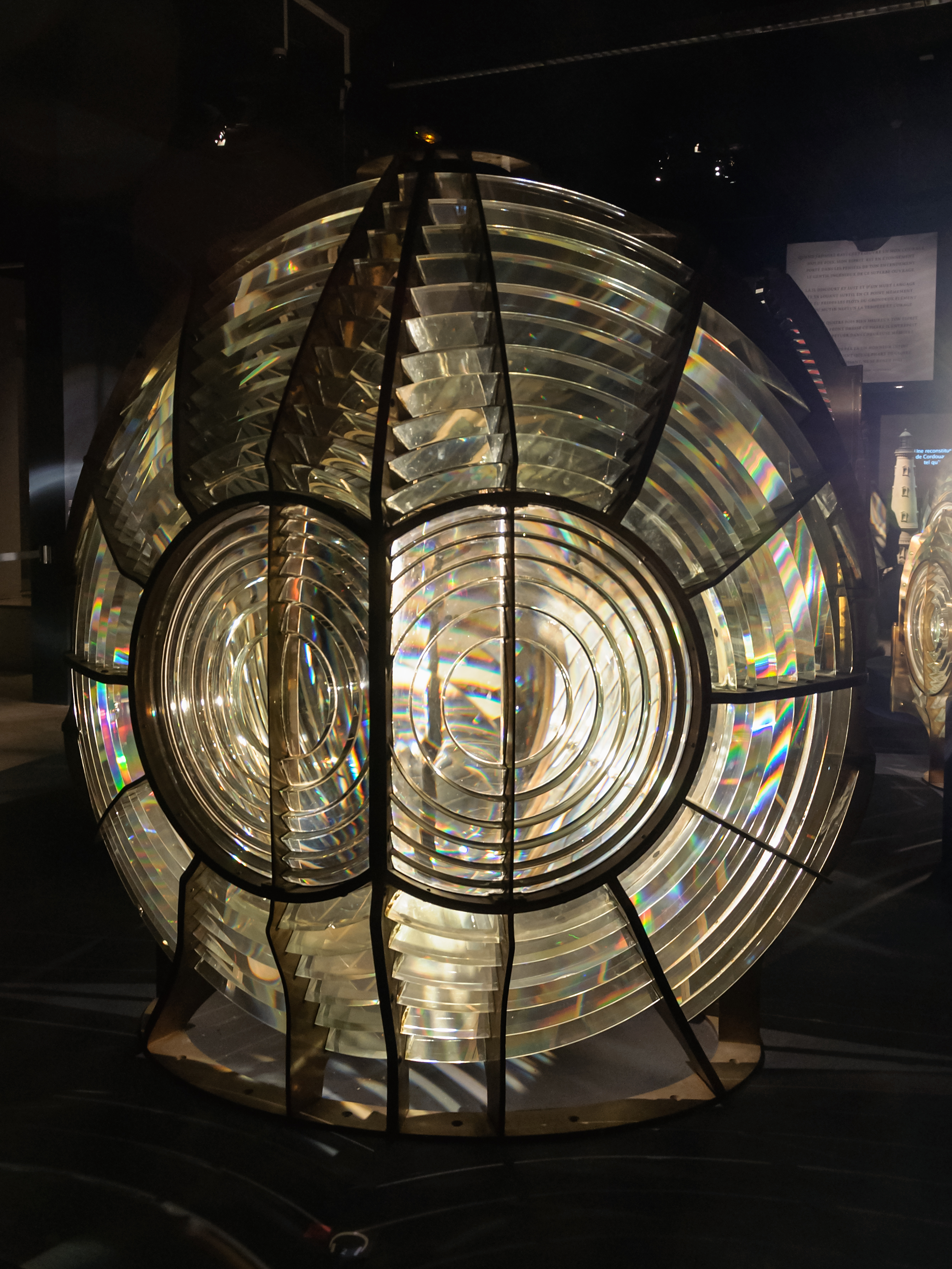 A Fresnel lens exhibited in the Musée national de la Marine (National Navy Museum) in Paris, France.